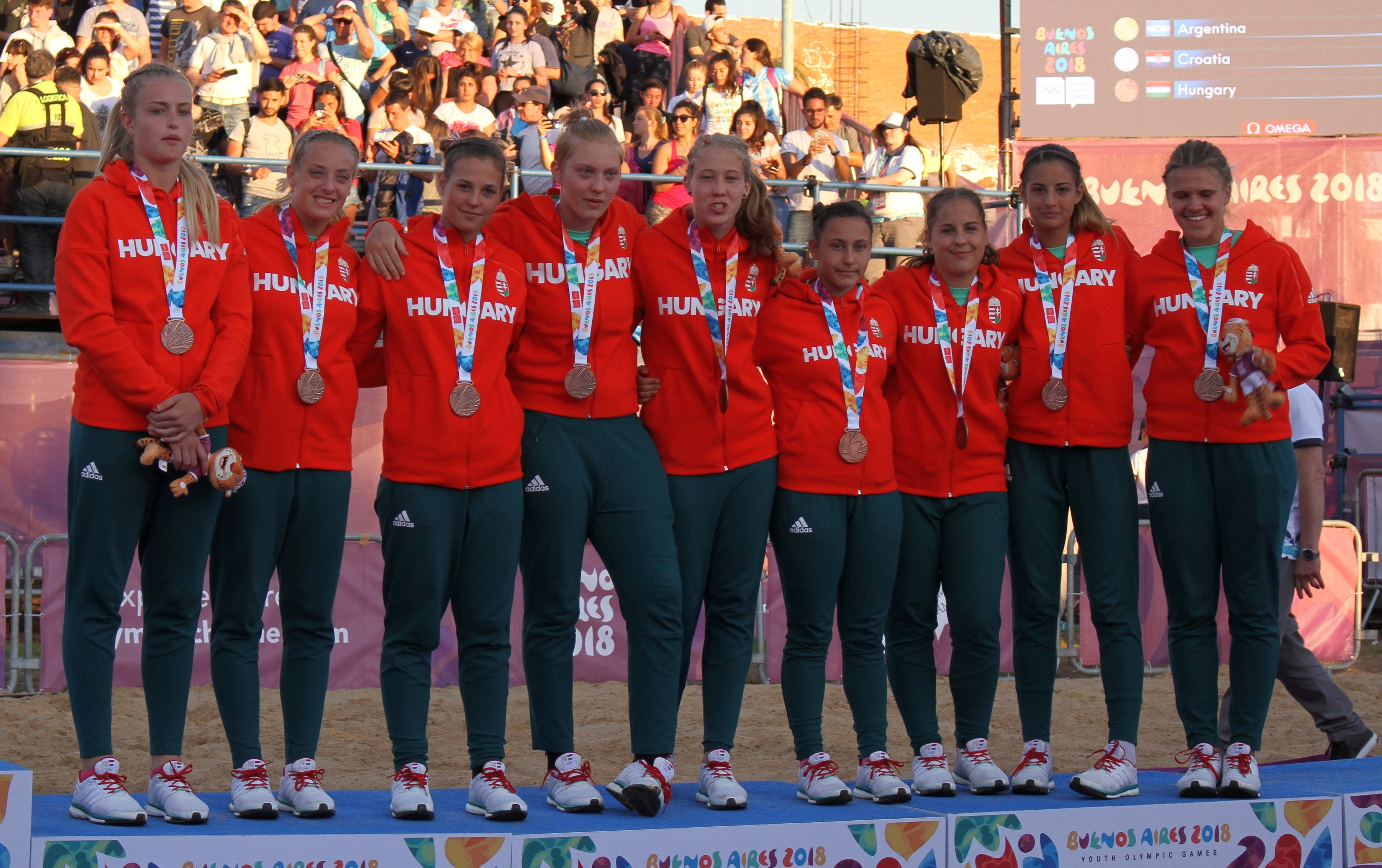 Beach handball at the 2018 Summer Youth Olympics in Buenos Aires at 13 October 2018 – Medal Ceremony Girls - Gold: Argentina, Silver: Croatia, Bronze: Hungary